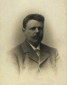 Þorvaldur Thoroddsen (1855-1921), Icelandic geologist and geographer